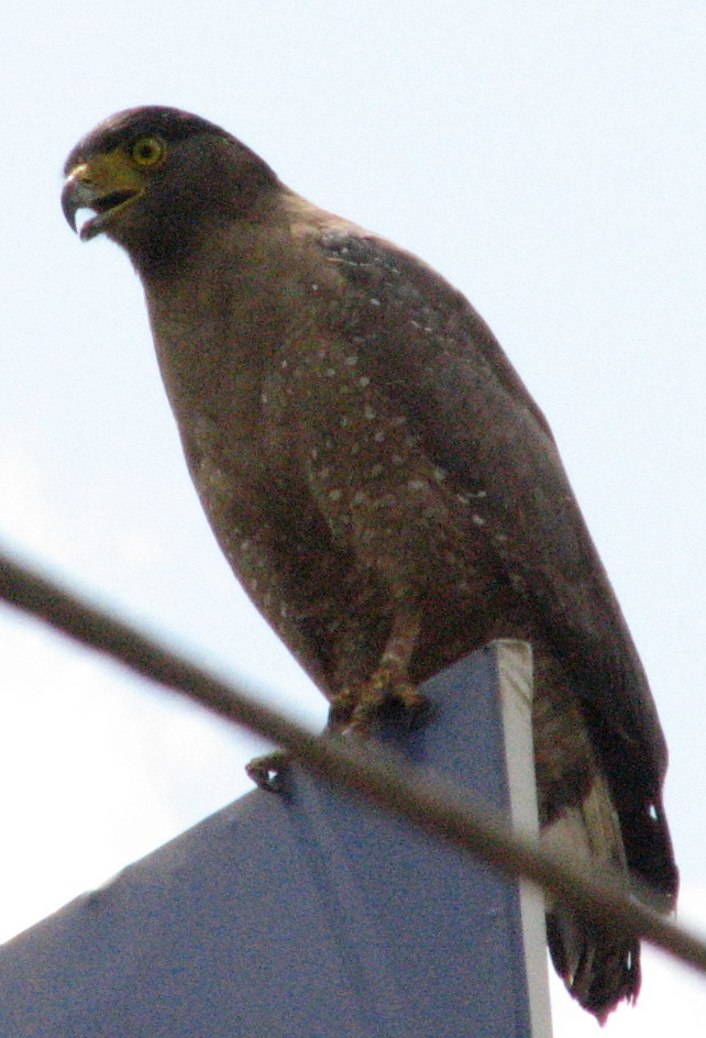 Taken perched on a signboard on the Ratnapura Road in central Sri Lanka.